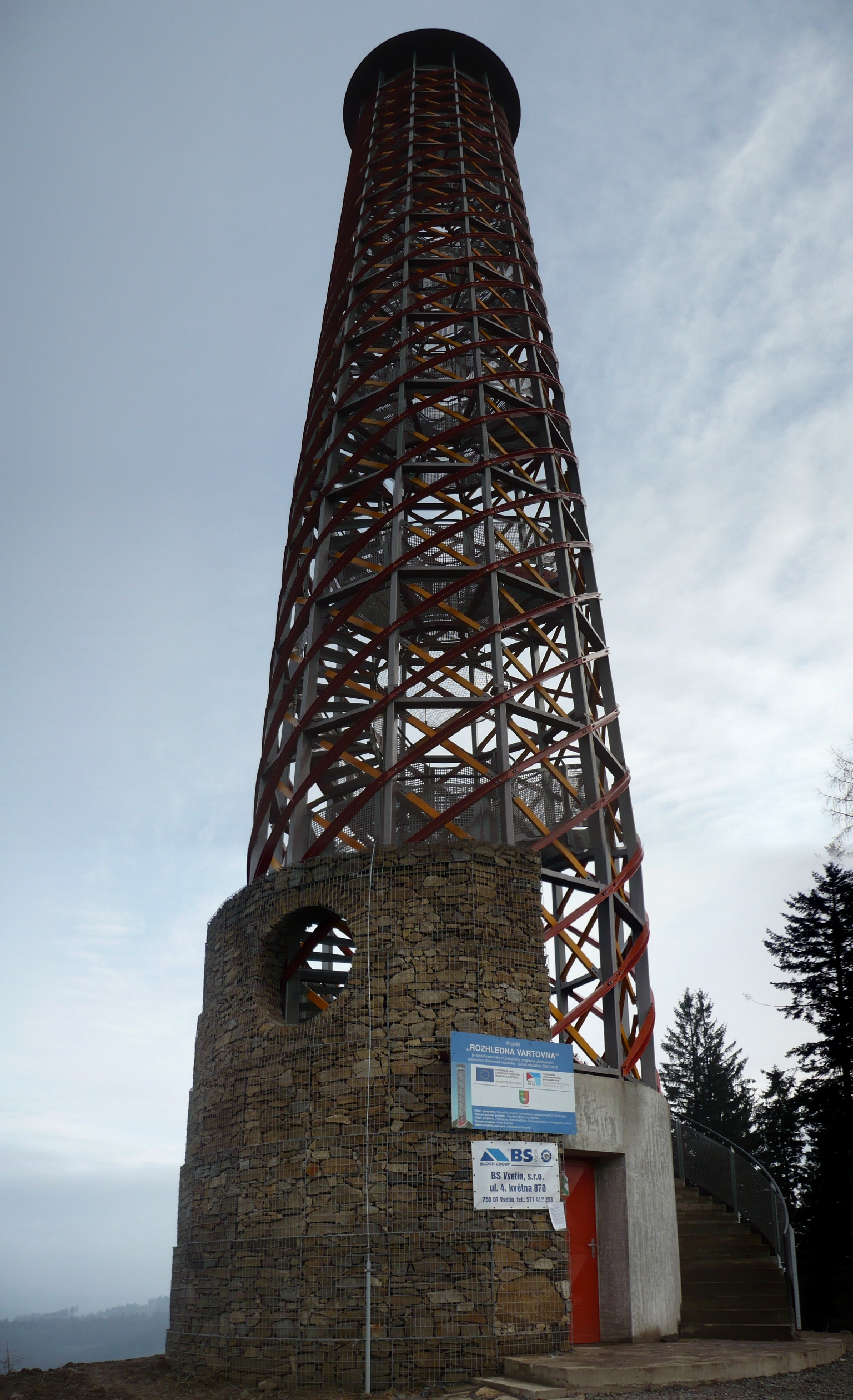 Observation tower Vartovna, near Valasska Polanka, Beskydy, The Czech Republic